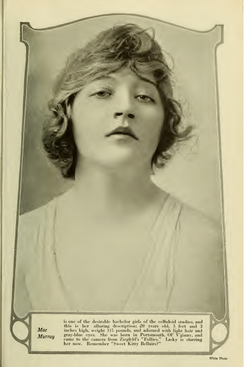 Actress Mae Murray in Photoplay August 1916